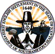 The official town seal of Southampton, New York.